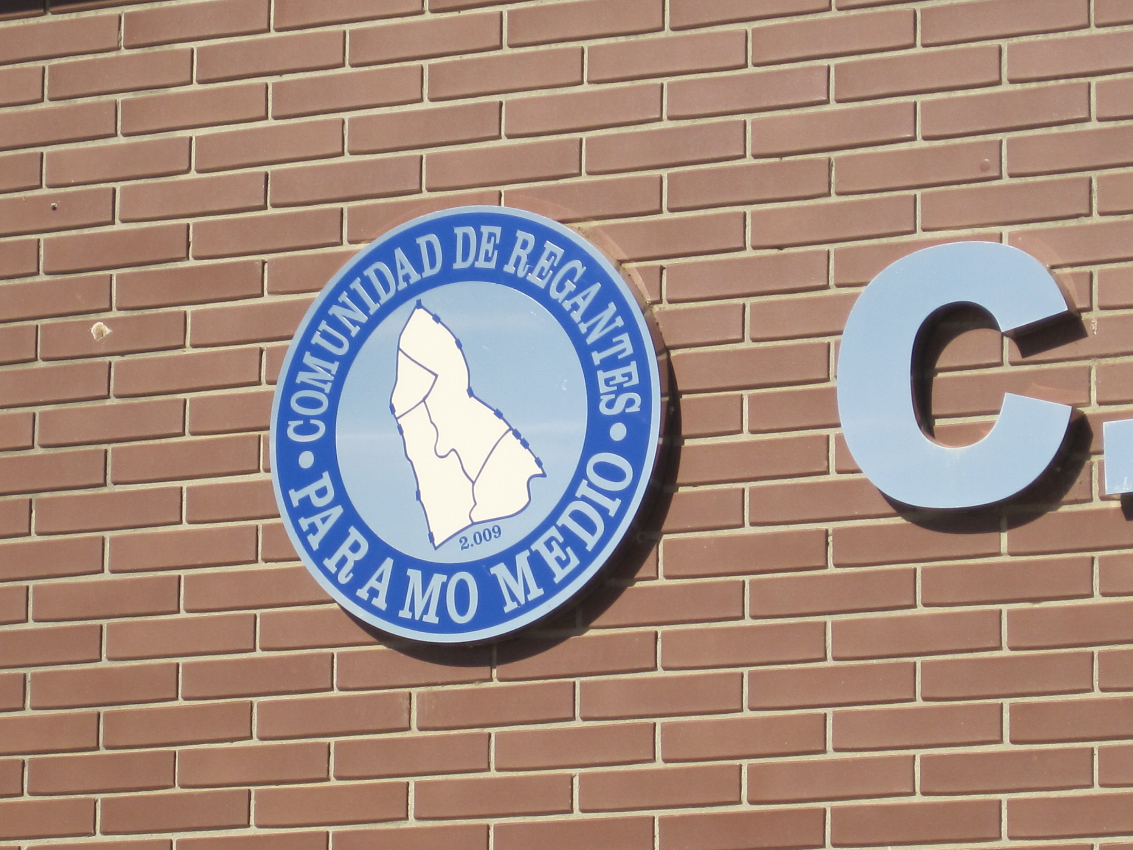 Imagen tomada en Bercianos del Páramo (León).